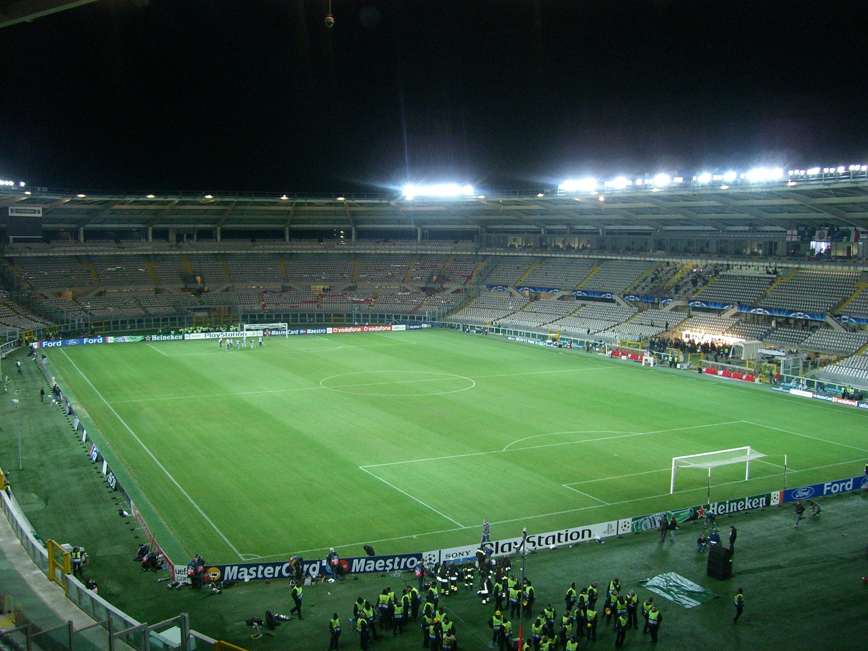 Juventus v Chelsea, Champions League, Stadio Olimpico di Torino, Turin, Italy